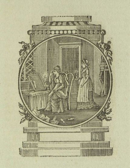 Title: The discreet princess, or, The adventures of Finetta : an entertaining story for the amusement of young masters and misses Identifier(s): FT LHE (DRAWER) Creator: L'Héritier de Villandon, Marie-Jeanne, 1664-1734 Date created: 1818 Contributor(s): Samber, Robert Alternative title: Adventures of Finetta Publisher: Glasgow : Published by J. Lumsden & Son, 1818 Extent (dimensions & scale): 57 p. Description: A translation by Robert Samber of 'L'adroite princesse' by Marie Jeanne L'Héritier de Villandon. Dedication signed 'R. Samber'. Collection: [#// Osborne Collection of Early Children’s Books] Rights access: Public domain Download the whole book in PDF format from our website